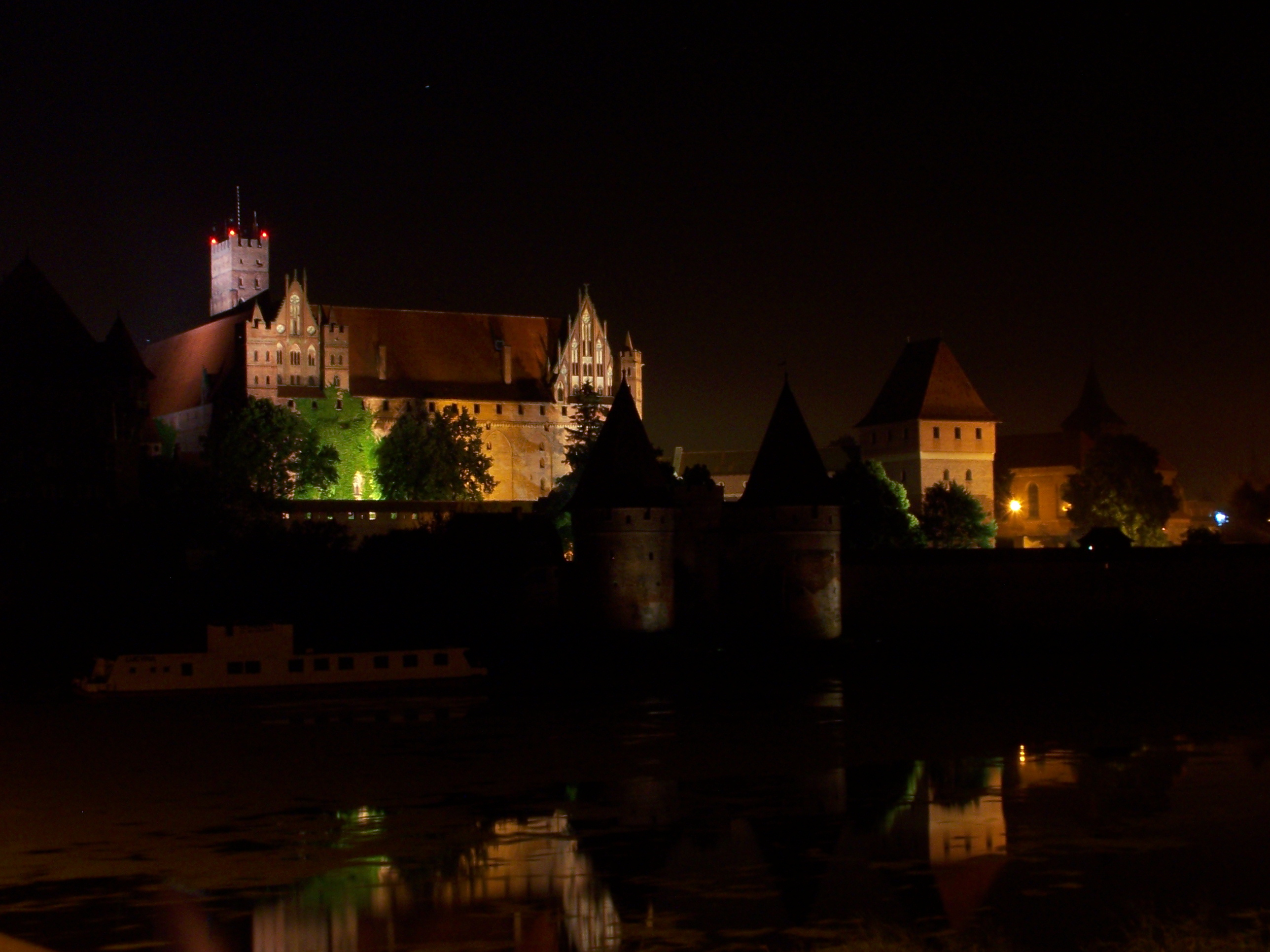 Castle in Malbork by night.